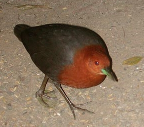 Red-necked Crake (Rallina tricolor) Kuranda, N. Queensland, Australia